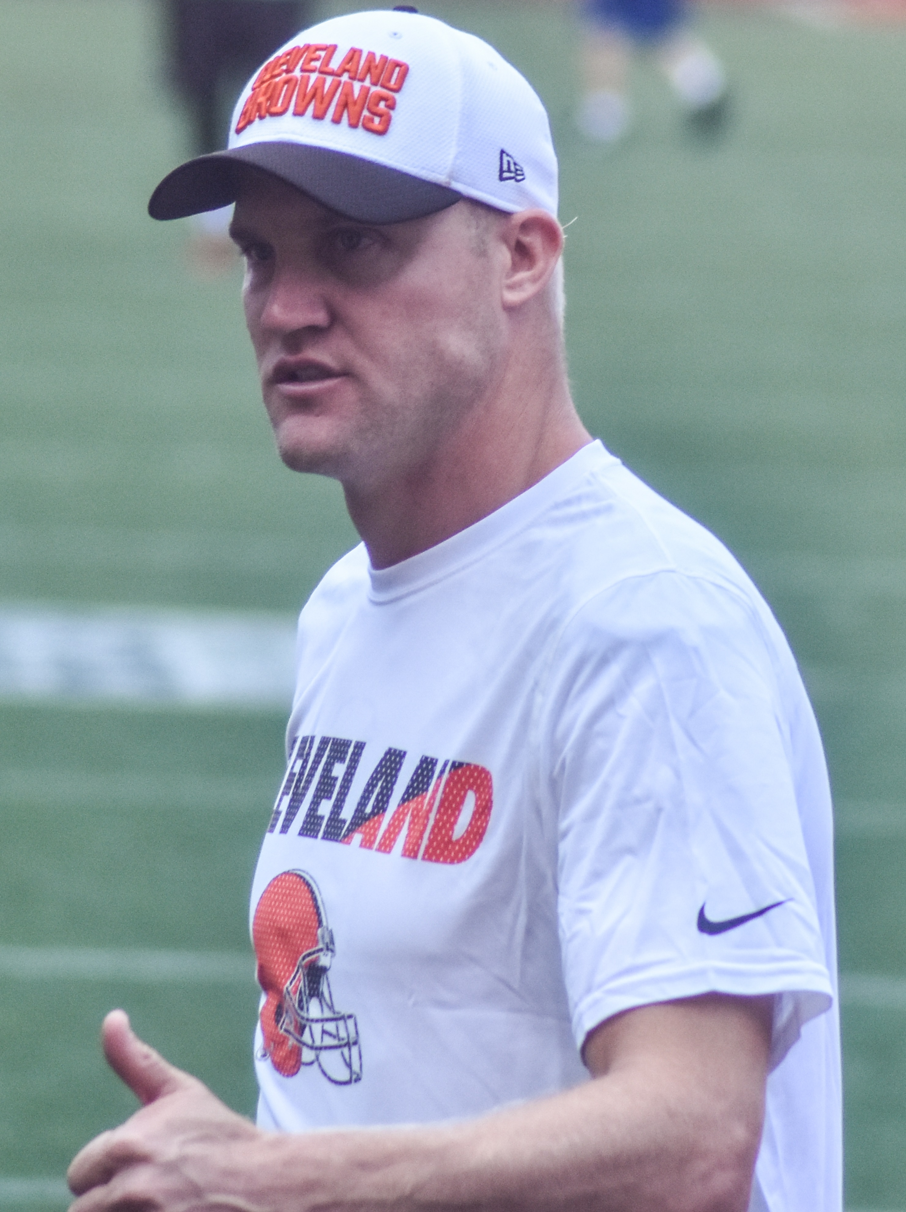 Browns vs Bills